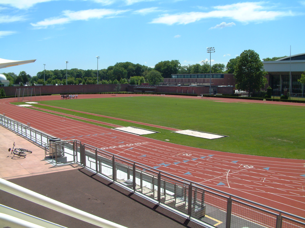 Princeton University Weaver Track.jpg